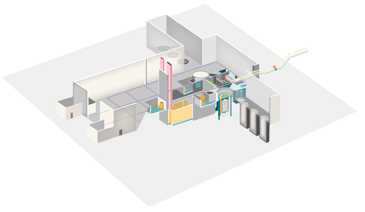 IMSR reactor building layout in cut-away view.